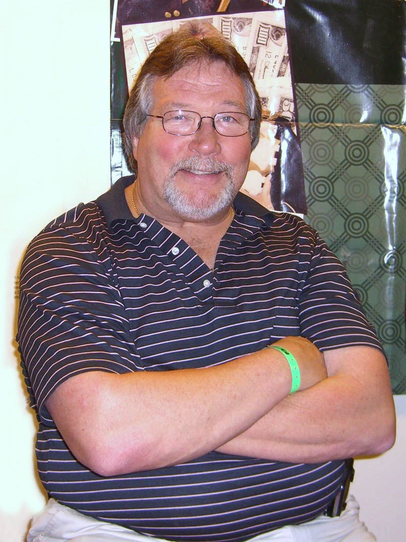 Professional wrestler Ted DiBiase at the Big Apple Convention in Manhattan, October 1, 2010. Photo by Luigi Novi. This photo may be used, modified and published for any purpose, only if a easily visible credit to the photographer is placed near the photo in each instance in which it is used. (See licensing information below.) Publication of this photo without this proper attribution constitutes copyright infringement. For more information on my photos, you can contact me here.